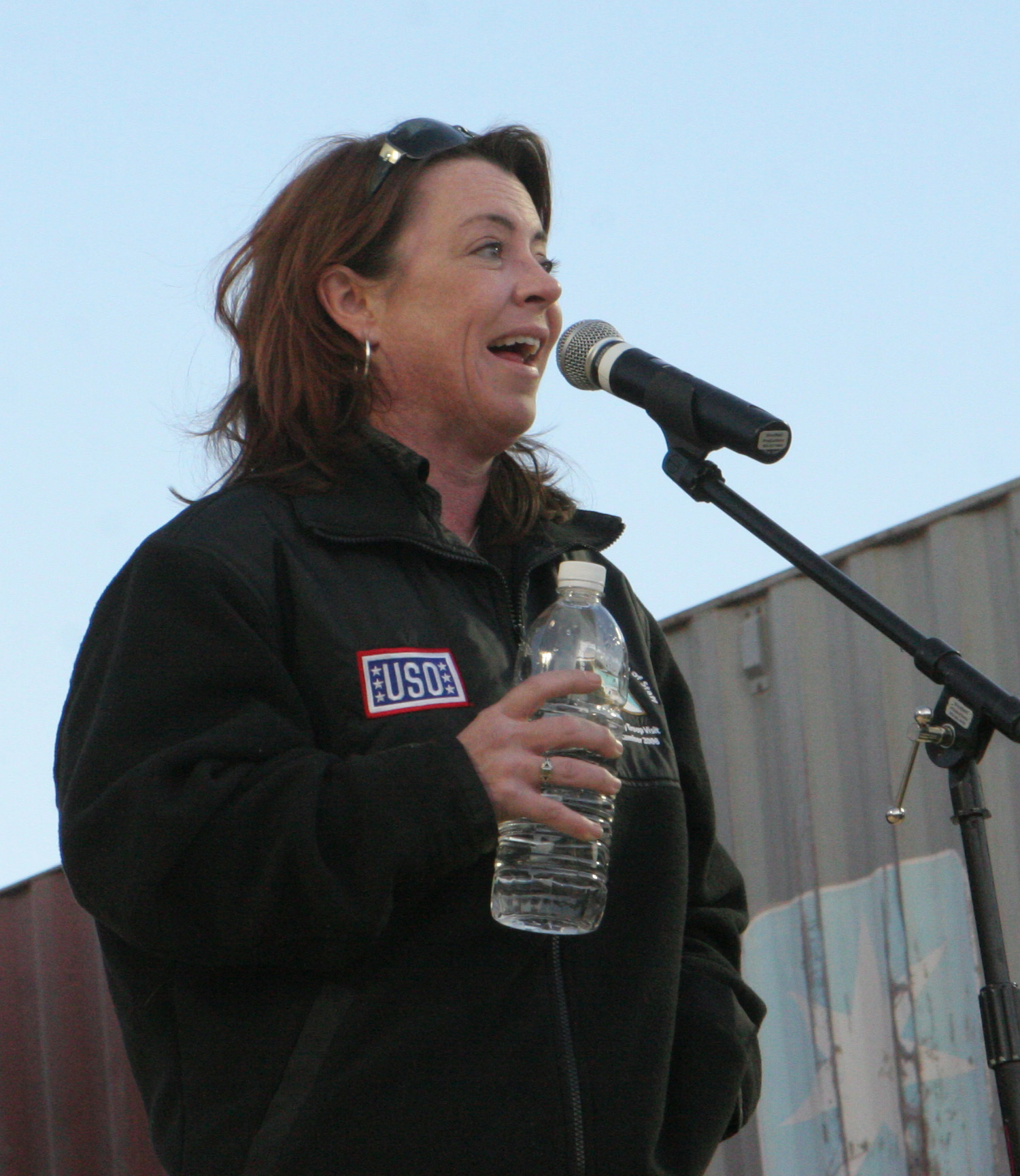 Comedian Kathleen Madigan performs for service members during the United Service Organization's Holiday Tour here Dec. 19. The comic was joined by musicians Kid Rock, Zac Brown and Kellie Pickler, and fellow comedians John Bowman, Lewis Black and Tichina Arnold. The group is set to tour five military bases throughout the Middle East boosting troops morale. It's amazing being out here supporting our military, said Pickler. I'm taking a little piece of home out to them. The performers entertained the crowd all afternoon and into the night. It was an awesome show, said Sgt. Joshua G. Martin, 24, Lincoln, Neb., motor transportation operator, Transportation Company, Combat Logistics Battalion 2, 1st Marine Logistics Group. I hope they can come out here and do it again.